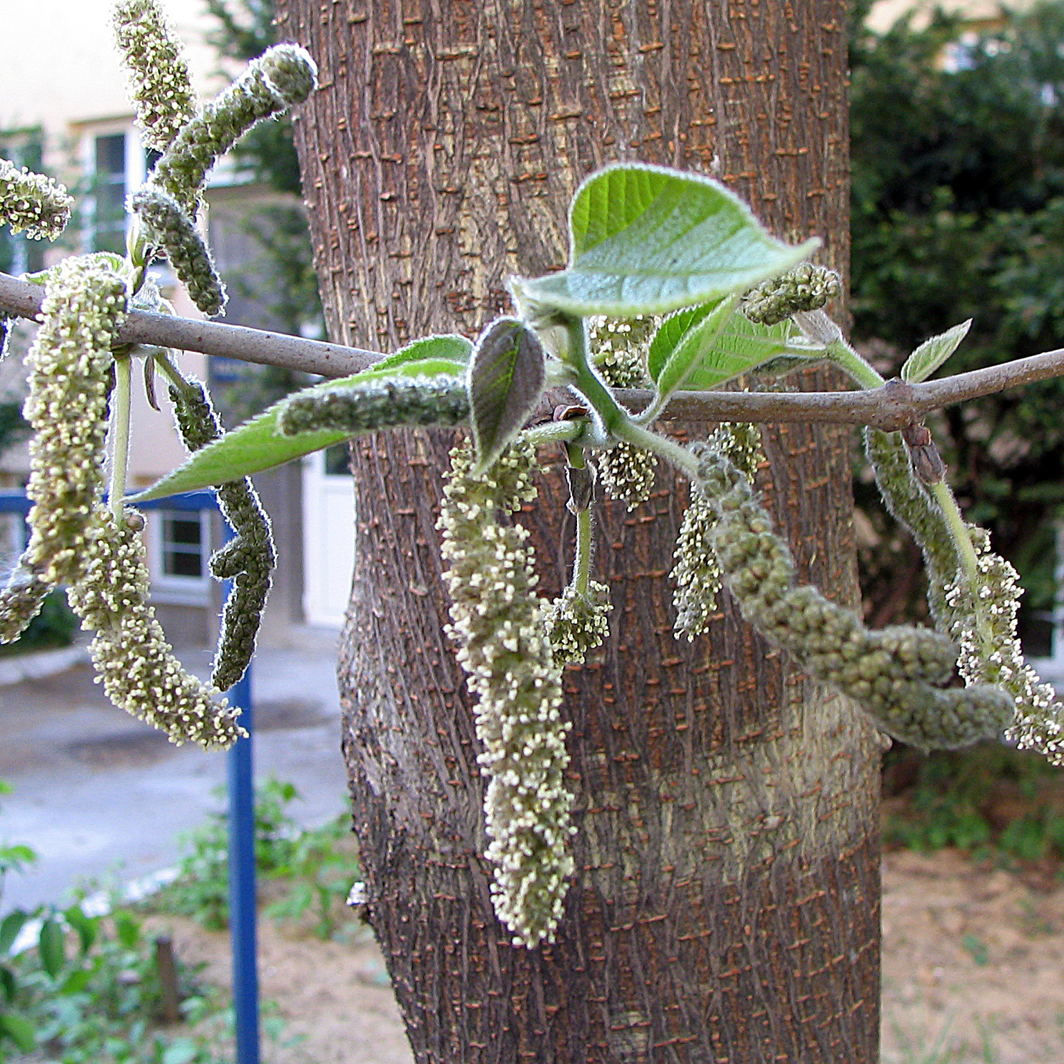 Male inflorescence of Broussonetia